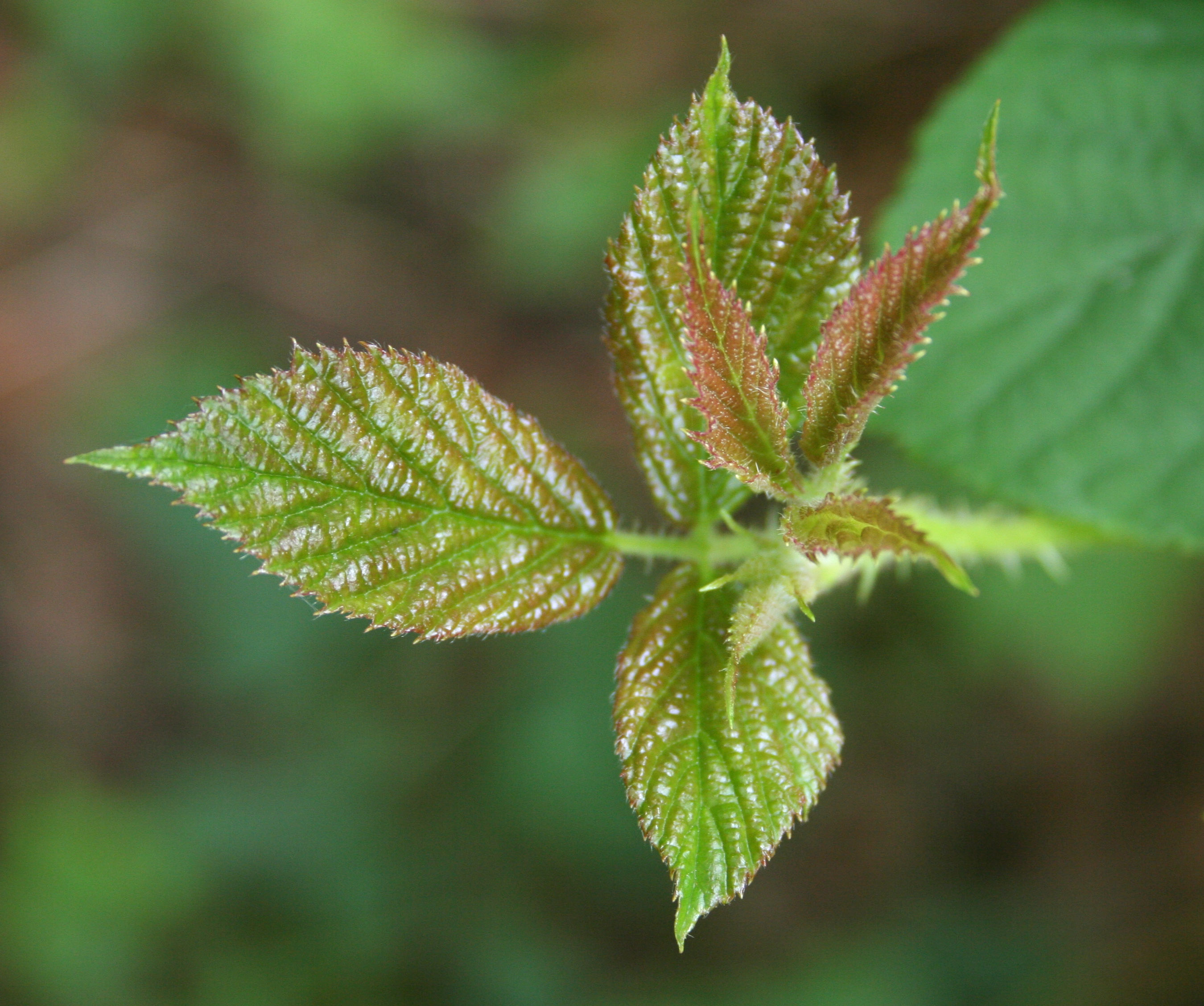 Blackberry - leaves